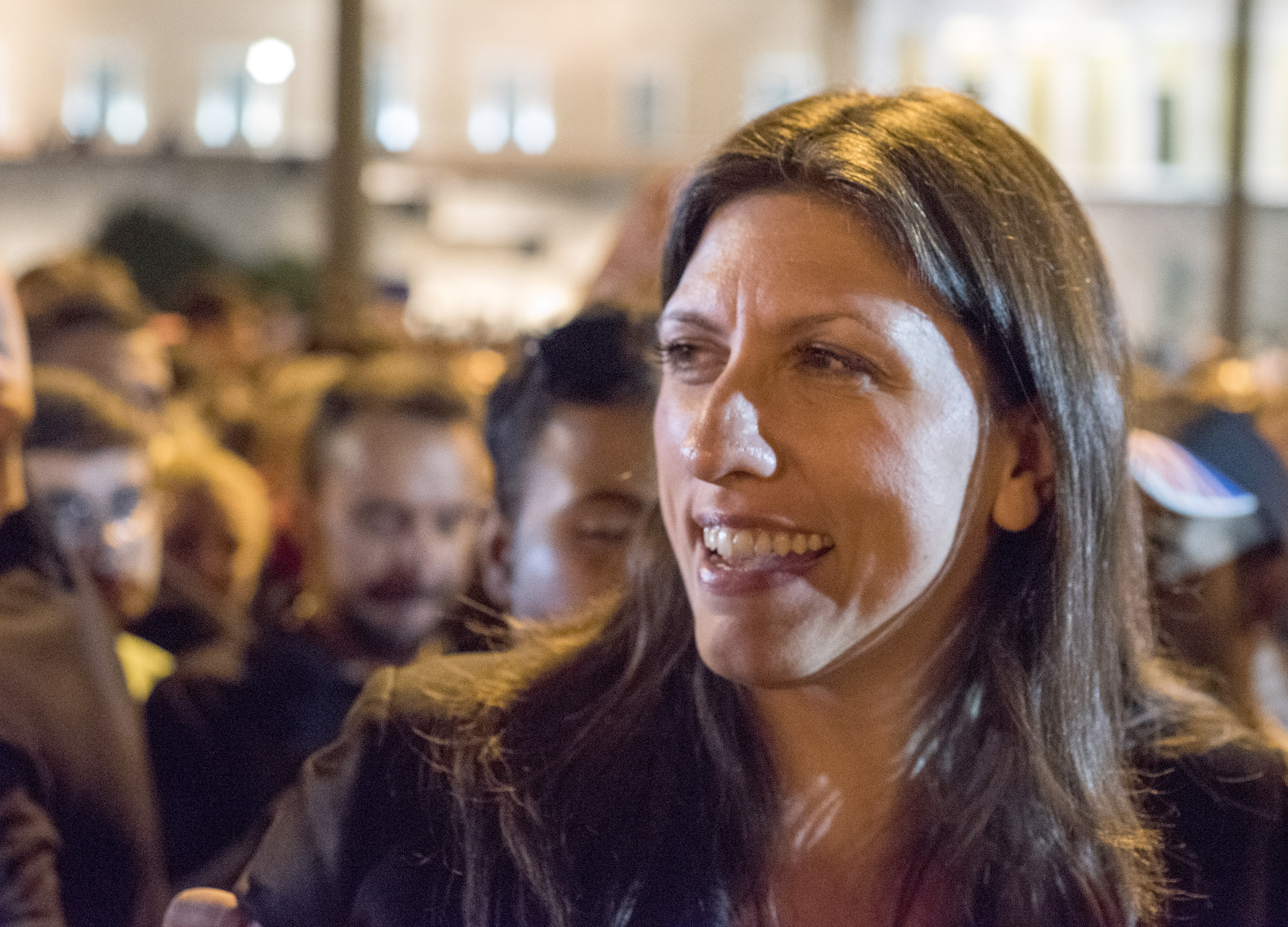 Zoi Konstantopoulou after the results of "NO" of the Greek Referendum in Syntagma square, in front of the Greek parliament.